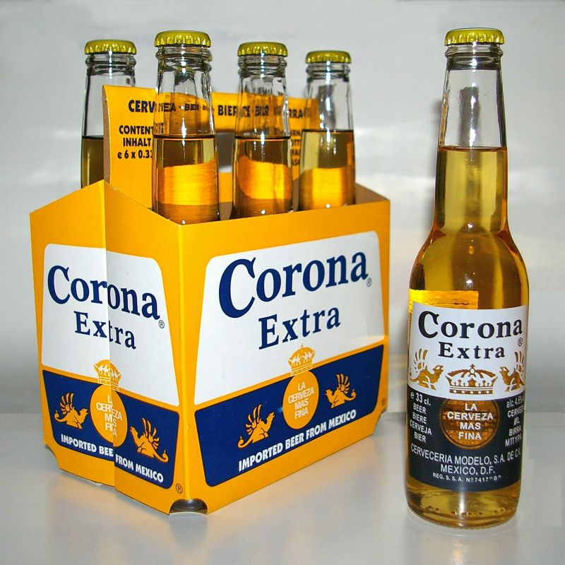 Mexican Beer: Corona 6-Pack